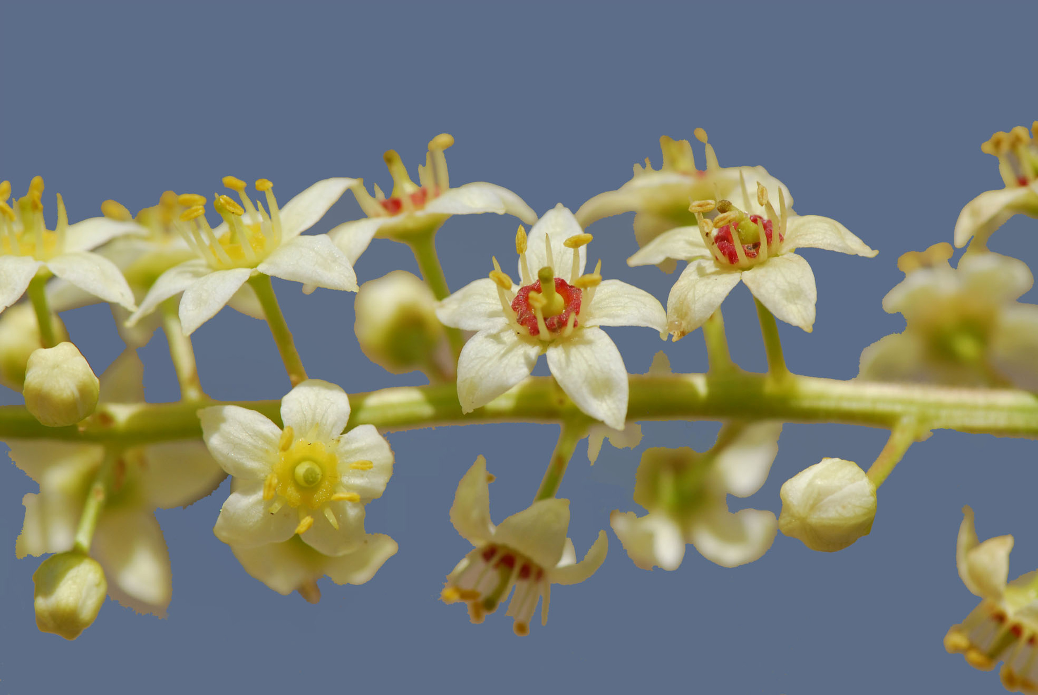 Flowers: fleshy discs